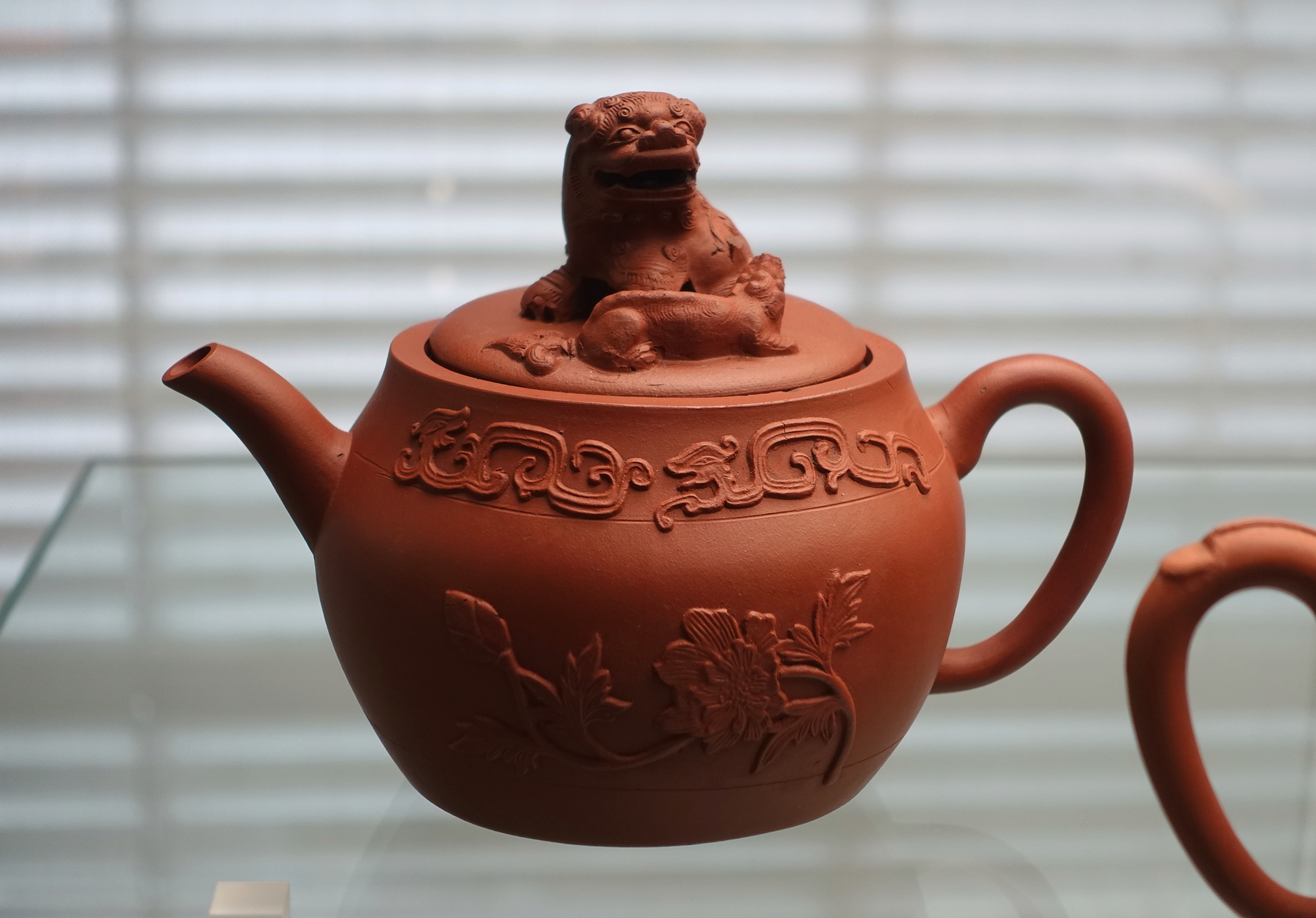 Exhibit in the Germanisches Nationalmuseum - Nuremberg, Germany.